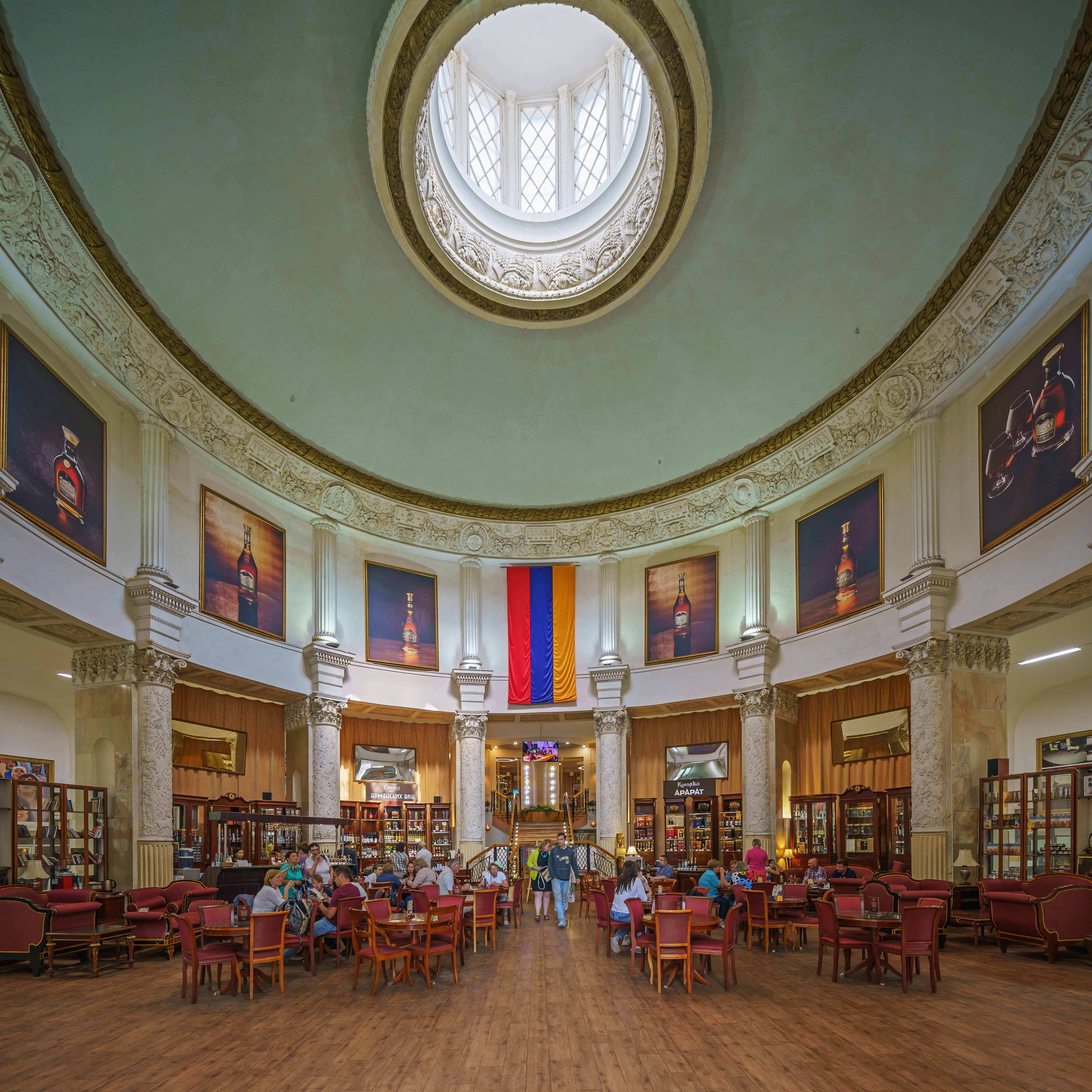 Interior of Armenia Pavilion in VDNKh Park (former Agricultural Exhibition Ground) in Moscow, Russia.